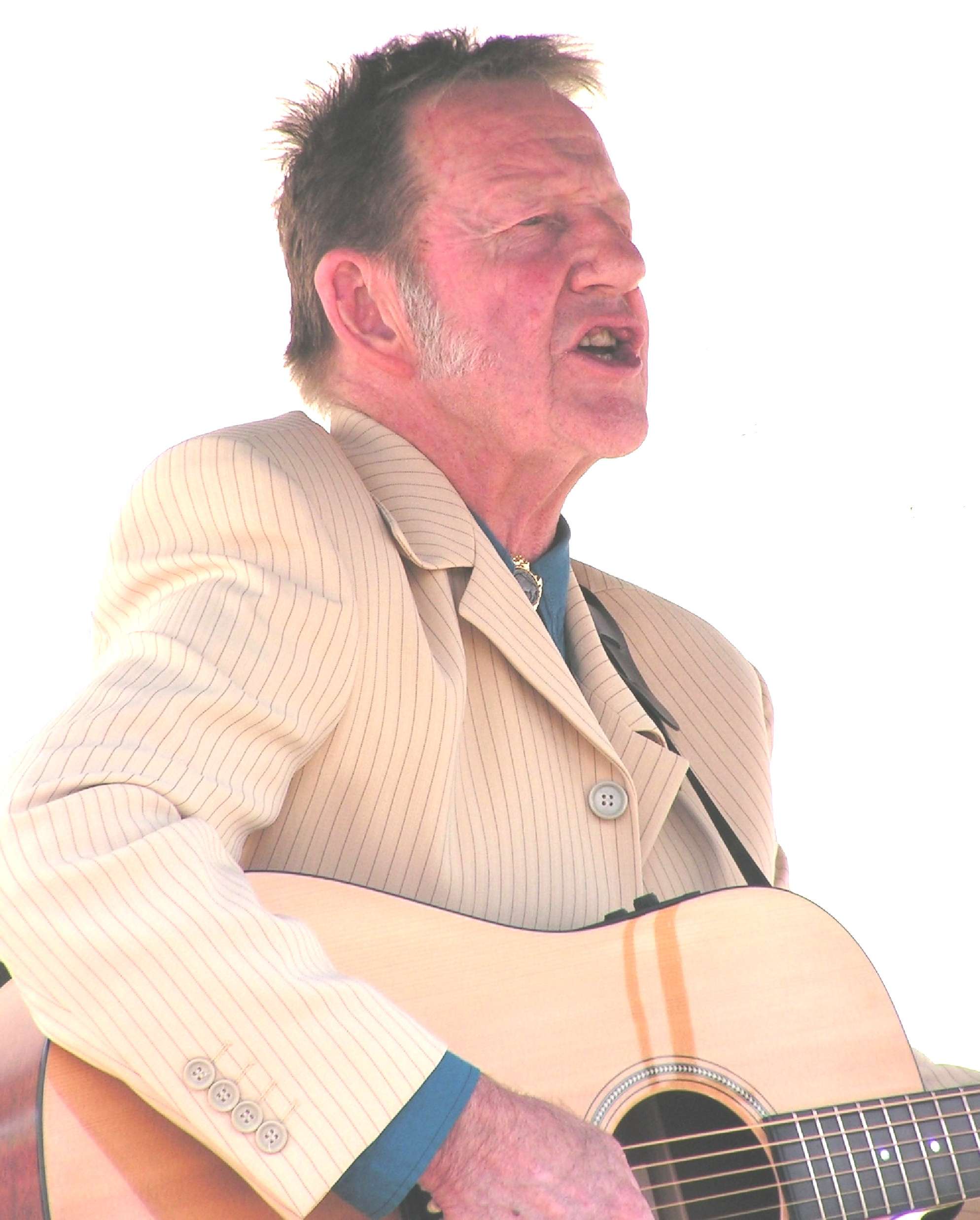 Steve Foster singing at Australia Day